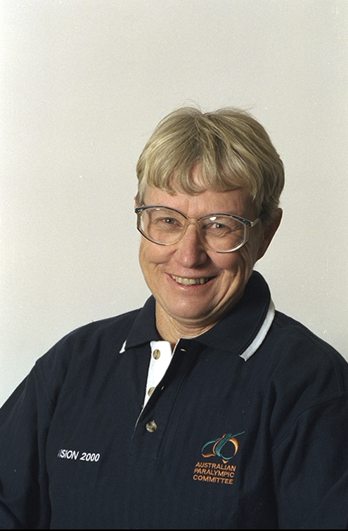 Portrait of Australian shooting head coach Yvonne Hill, 2000 Australian Paralympic Team